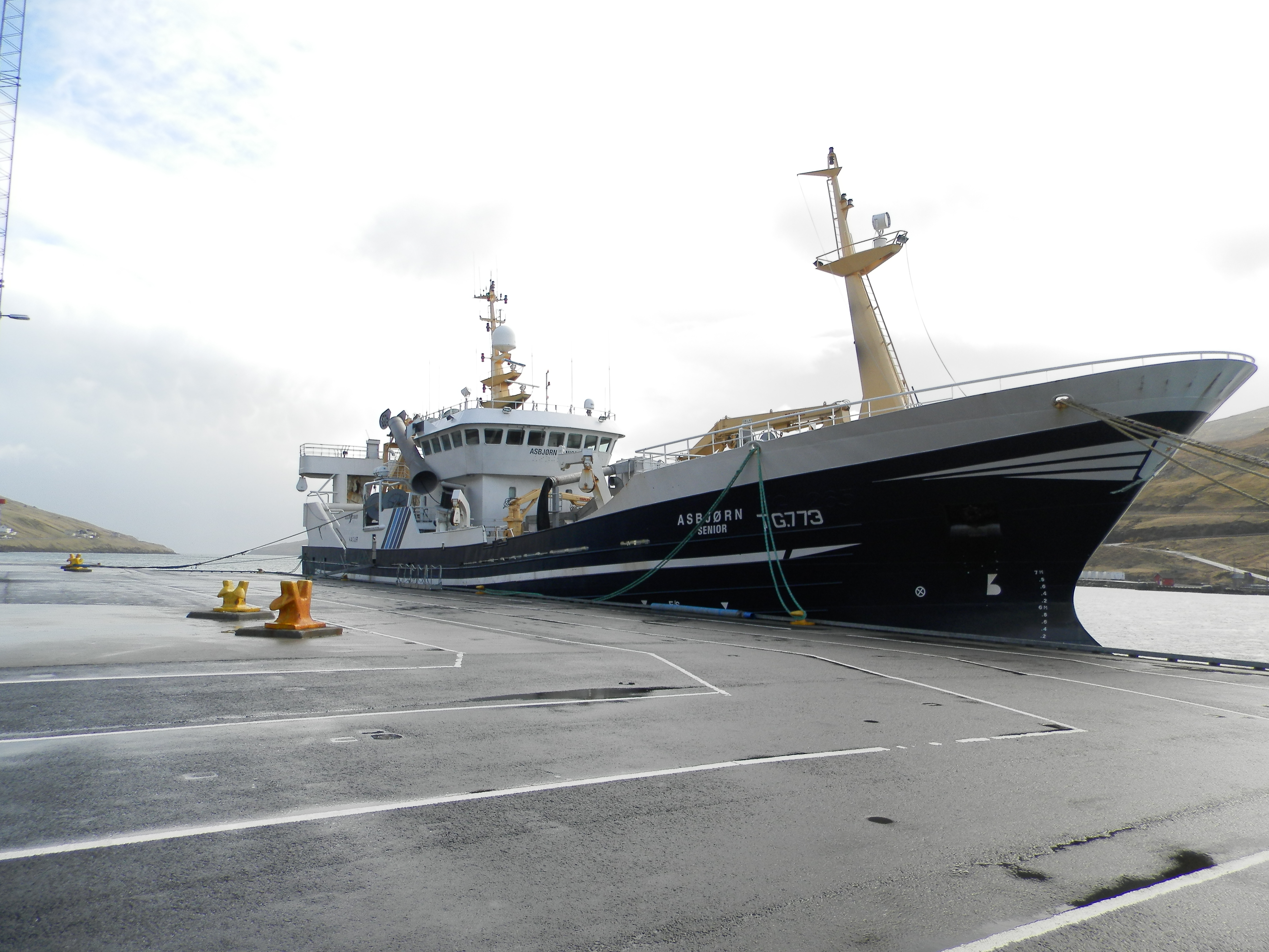 Asbjørn Senior is a Faroese fishing vessel. Earlier it was a Danish fishing vessel. It was built in 2000. The photo is taken in Vágur on 28 February 2015.